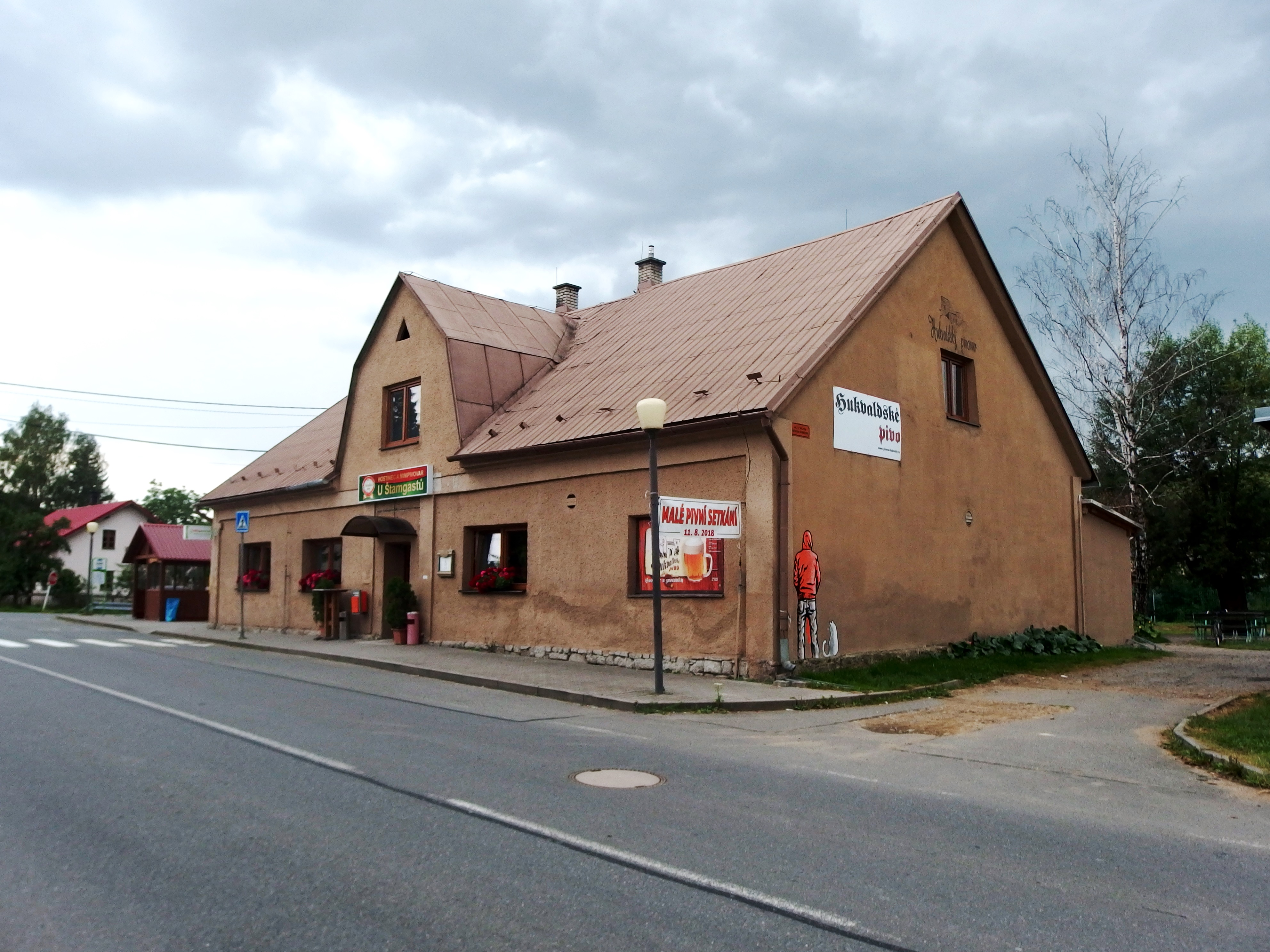 Hukvaldy, Frýdek Místek District, Czech Republic, part Dolní Sklenov.